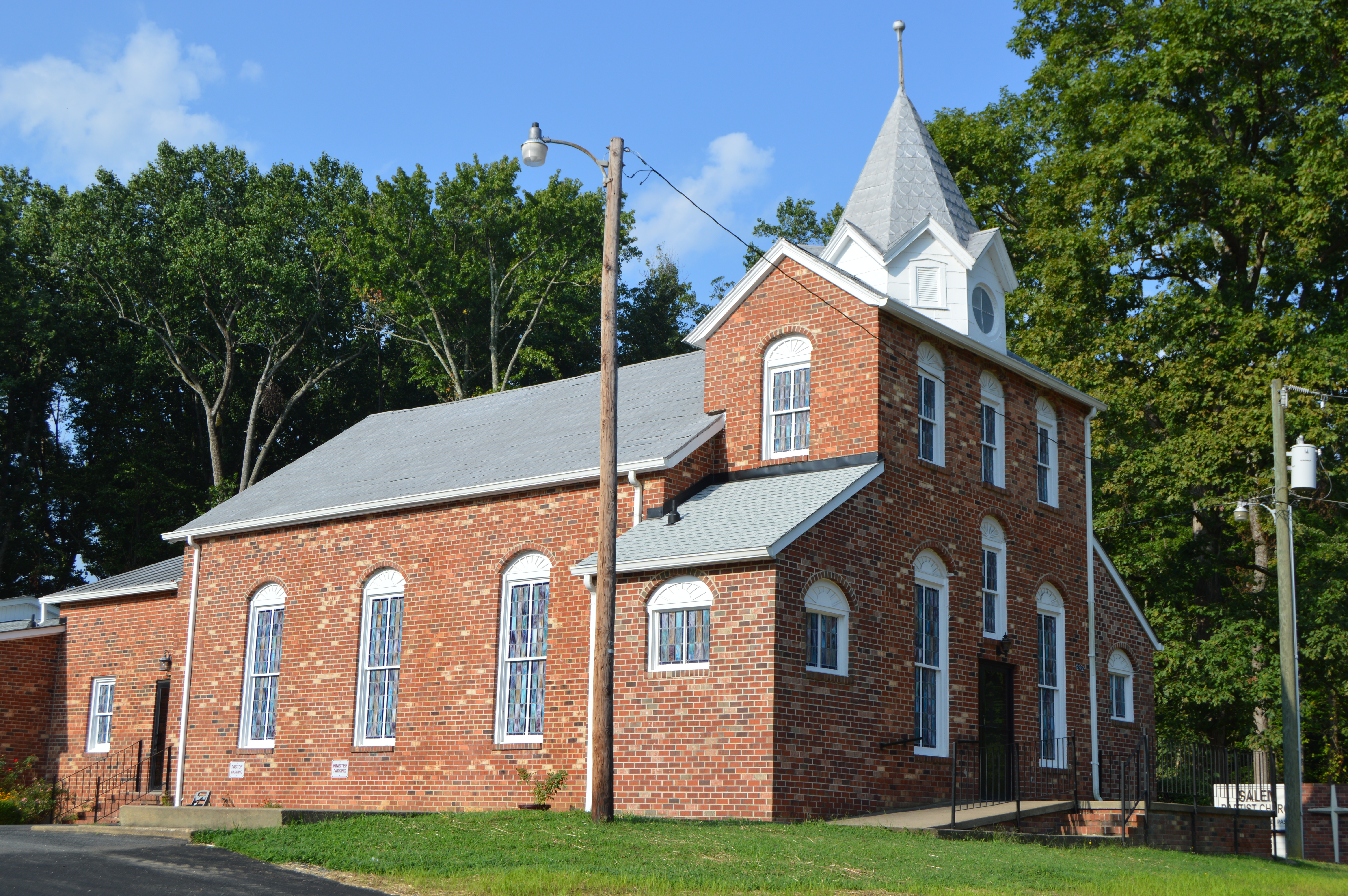 Front and eastern side of Salem Baptist Church, located on Salem Church Road at the crossroads of Welcome in King George County, Virginia, United States.